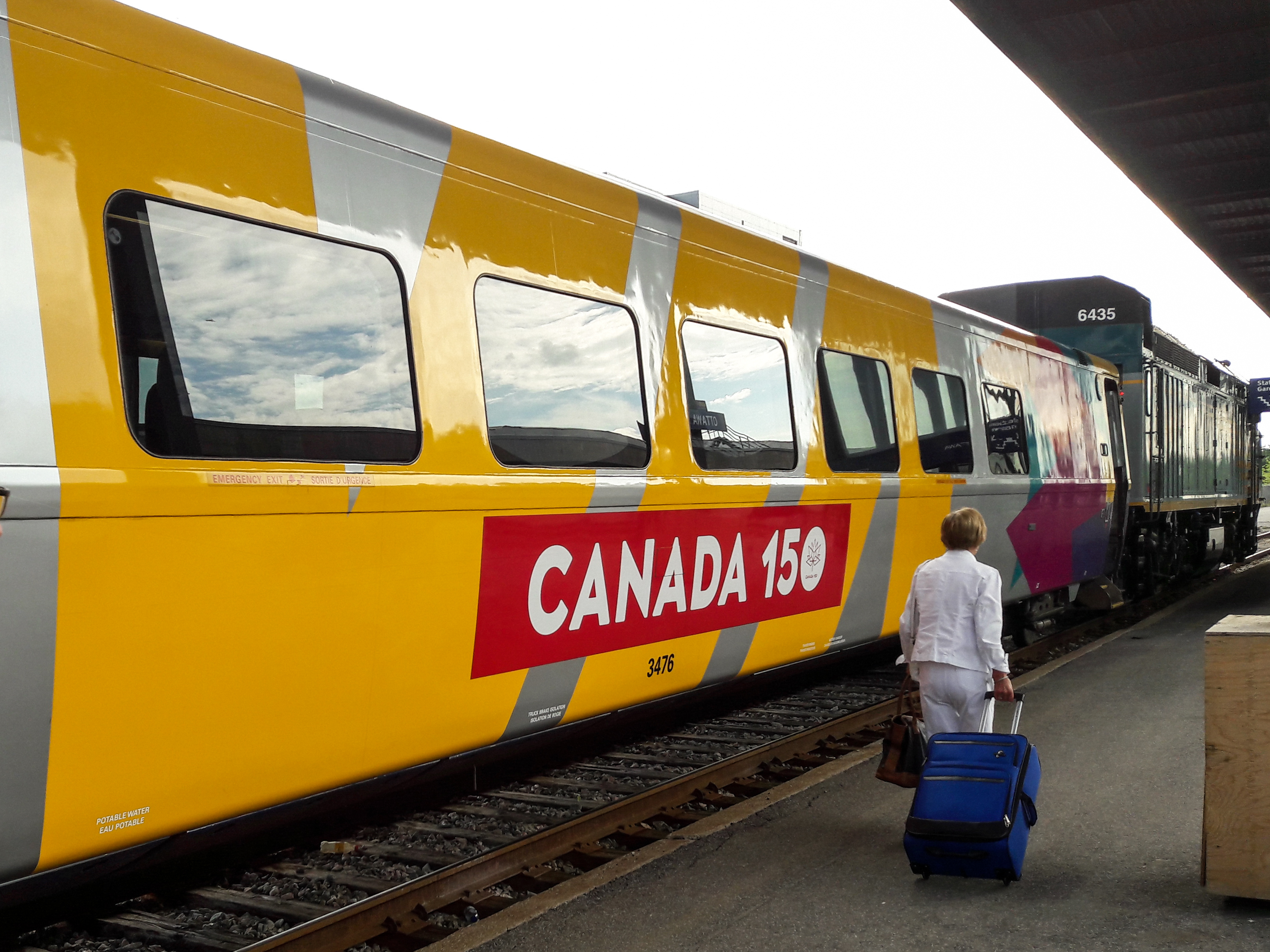 Via Rail business class rail car